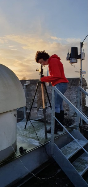 An astrophysicist at CIT Blackrock Castle Observatory observing the transit of Mercury using a Cornado P.S.T telescope.